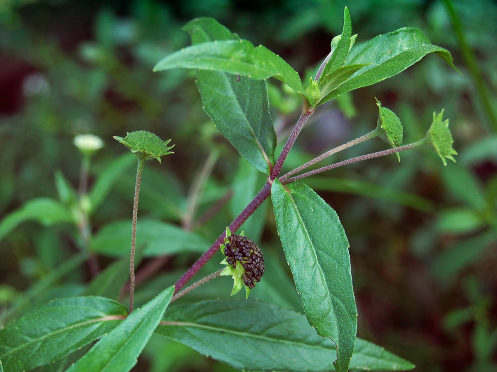 Eclipta alba fruit heads. Darmaga, Bogor, West Java.